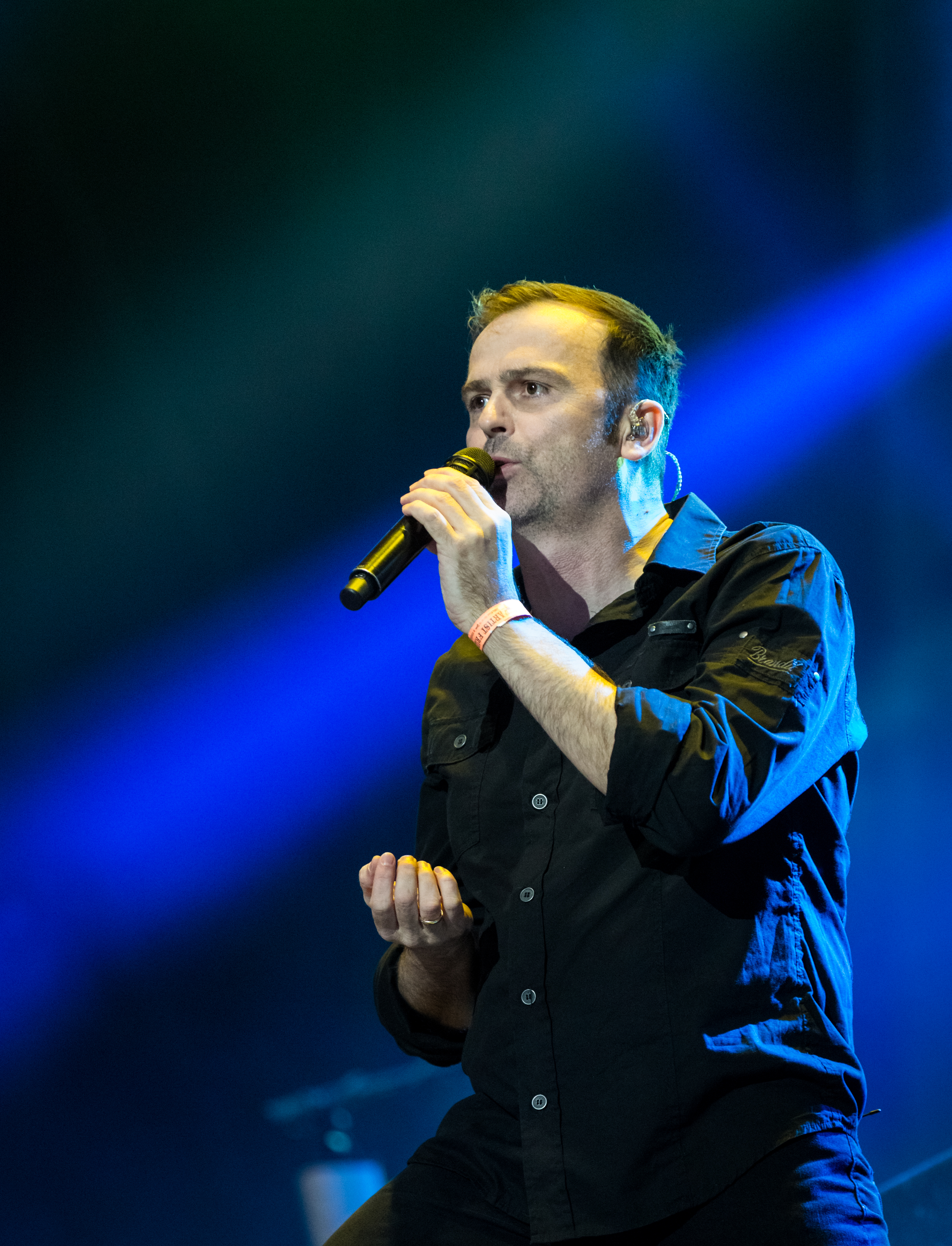 Blind Guardian - Wacken Open Air 2016